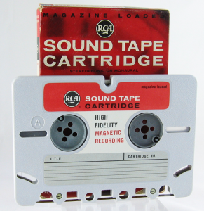 The sound tape cartridge developed by RCA